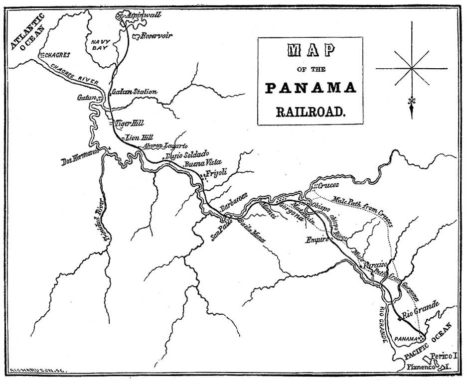 Map of the Panama Railroad, 1861. From "Illustrated History of the Panama Railroad" by Fessenden Nott Otis, Harper & Brothers, New York, 1861 (The Cooper Collections)